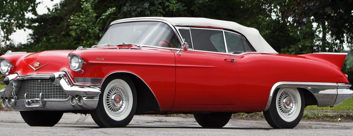 A 1957 Cadillac-nice